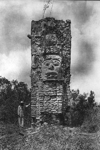 Nocuchich, Campeche, Mexico: The giant figure.